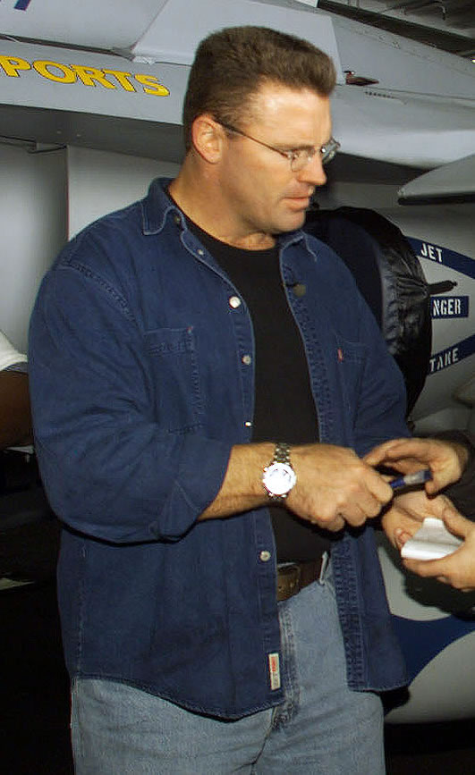 Former American football player Howie Long visiting the United States military ship, USS Harry S. Truman on December 14, 2000. Photo has been cropped to focus on Long.